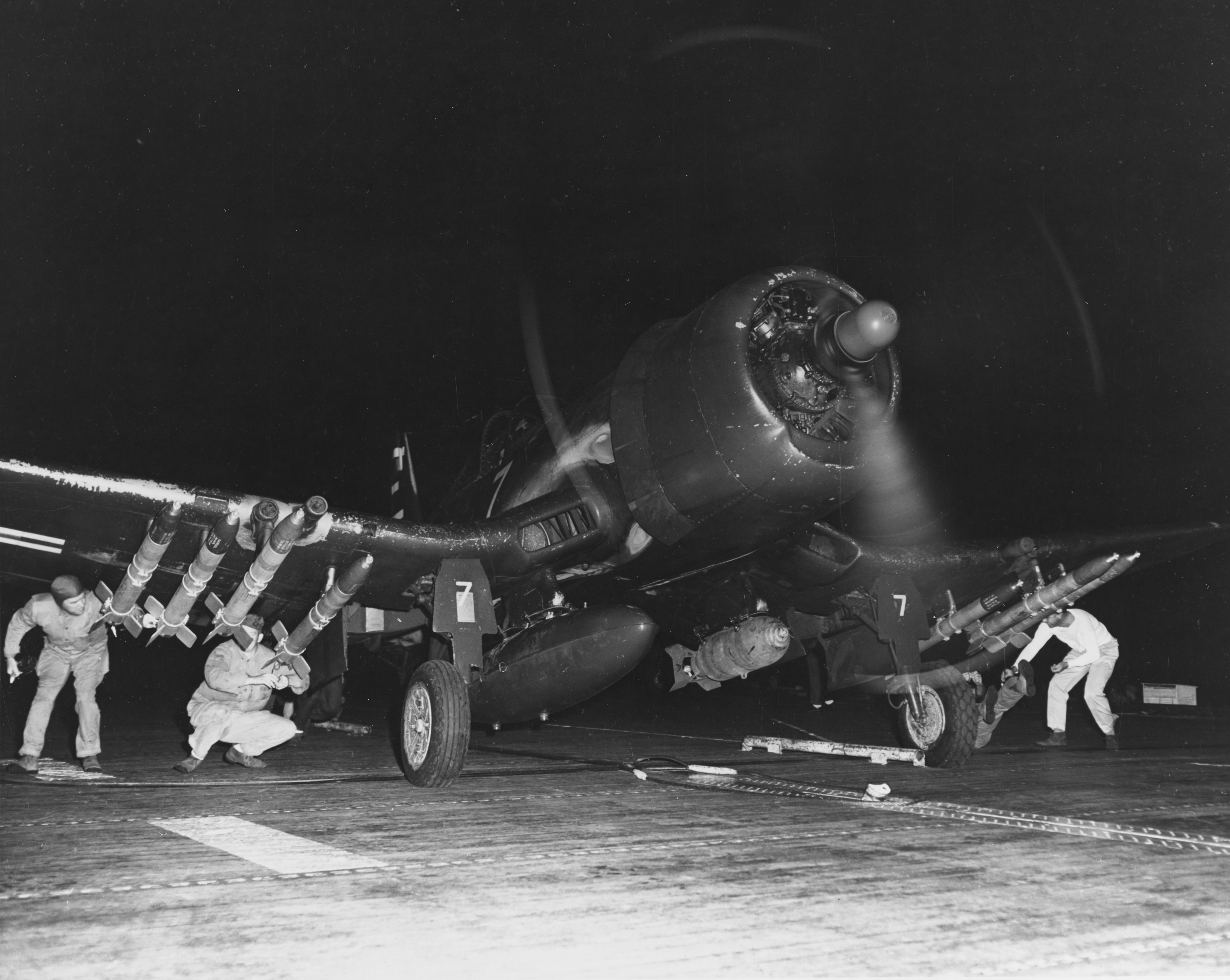 A U.S. Marine Corps Vought F4U-4B Corsair of Marine Fighter Squadron 214 (VMF-214) "Blacksheep" being readied for take-off between August and November 1950 aboard the escort carrier USS Sicily (CVE-118) for a strike in Korea. Original caption: "U.S. Marine Corps F4U-4B Corsair fighter-bomber receives final checks to its armament of bombs and 5-inch rockets, just prior to being catapulted from USS Sicily (CVE-118) for a strike on enemy forces in Korea. The original photograph is dated 16 November 1950, but was probably taken in August-October 1950. Note battered paint on this aircraft."